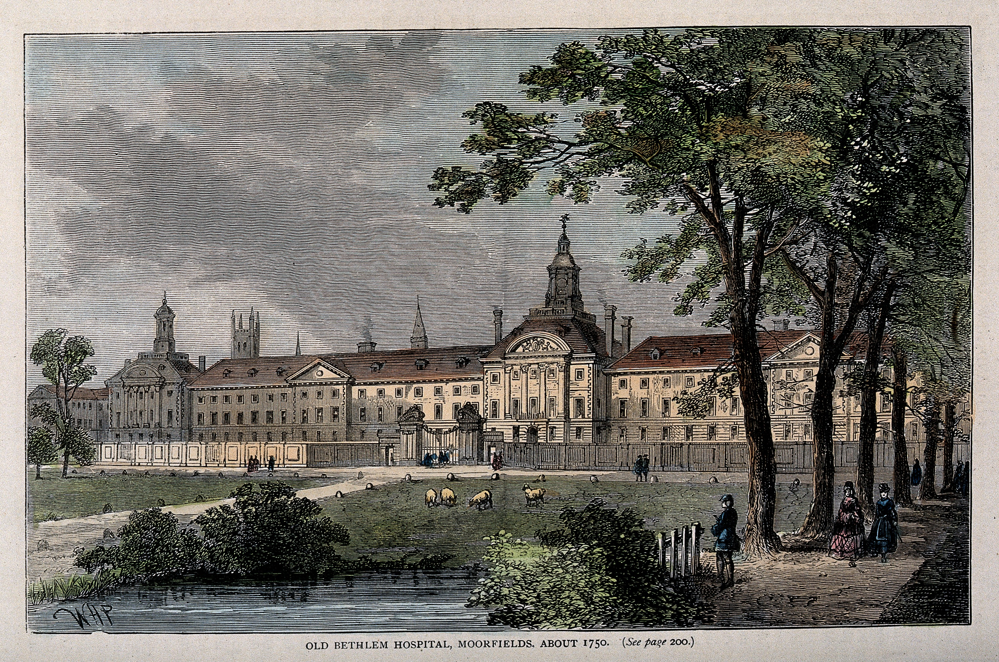 The Hospital of Bethlem [Bedlam] at Moorfields, London: seen from the north, with sheep grazing and people walking in the foreground. Coloured wood engraving by W. H. Prior after an earlier engraving. Iconographic Collections Keywords: Bethlem Royal Hospital (London); Robert Hooke; William Henry Prior